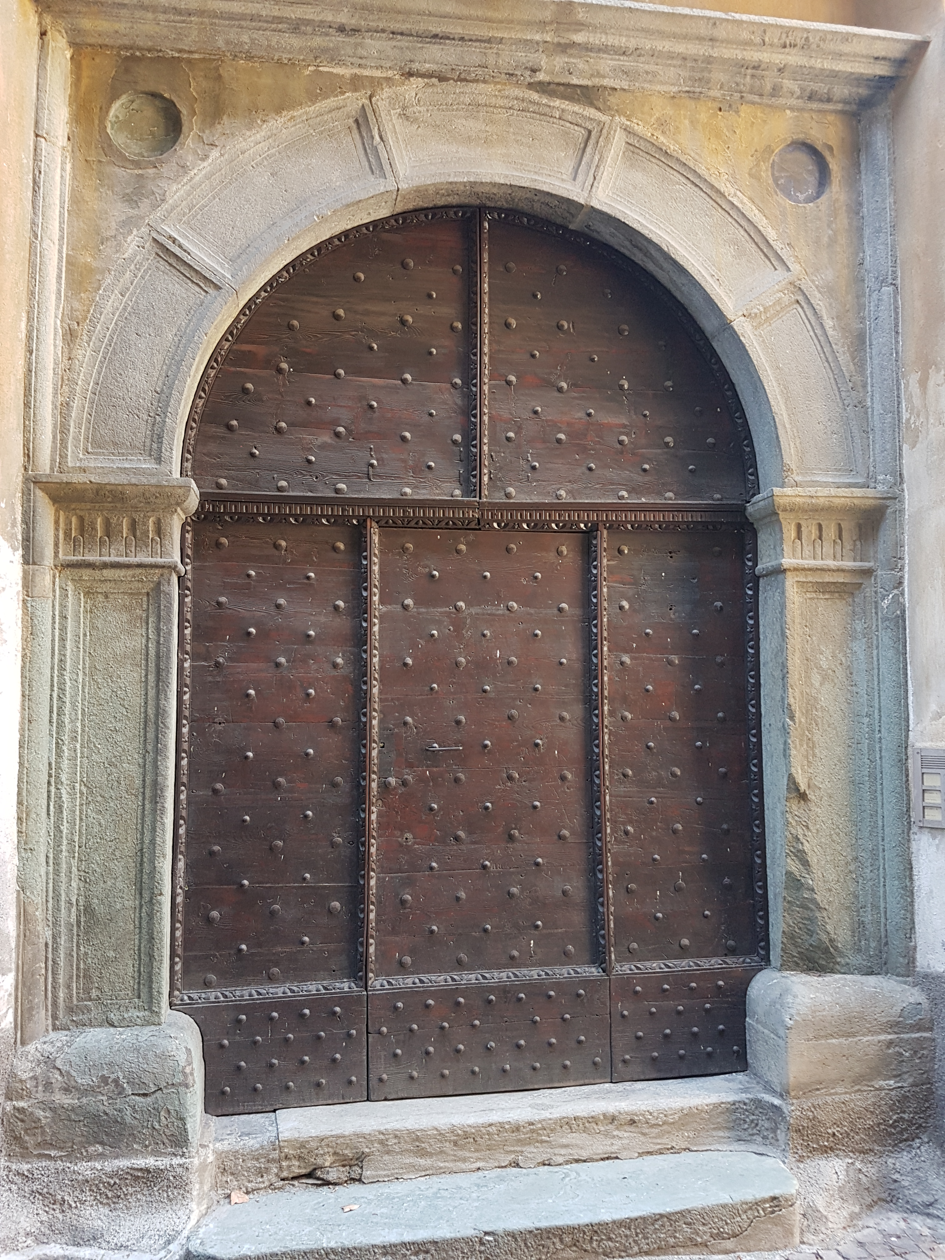 Old town of Tirano (Sondrio), Italy. Palazzo Buttafavo